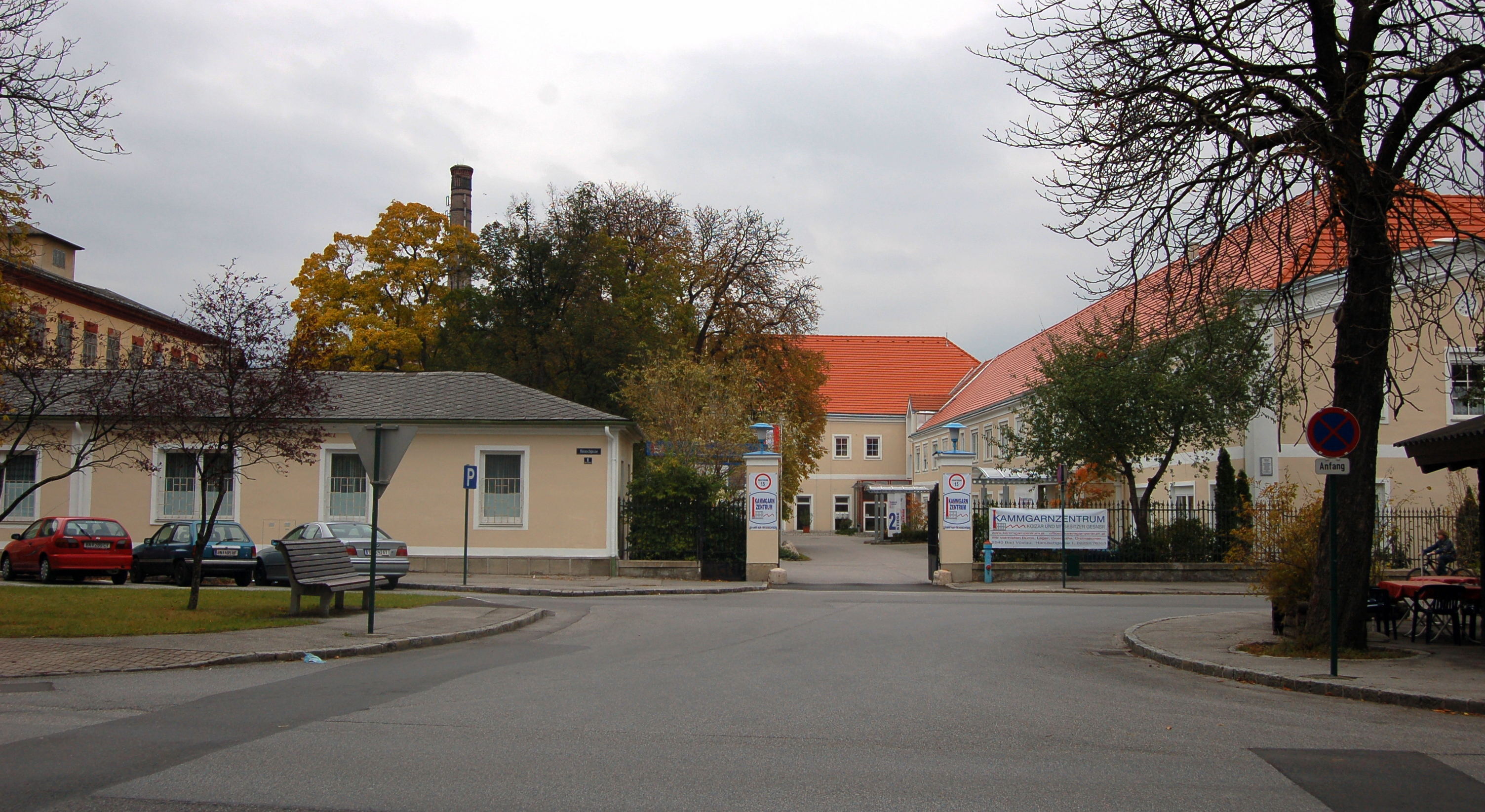 So called "Kammgarnzentrum" (i.e. Worsted centre), located in the buildings of closed down “Vöslauer Kammgarnfabrik” (i.e. Vöslau Worsted Factory) at Bad Voeslau, Lower Austria, is now home to various businesses.